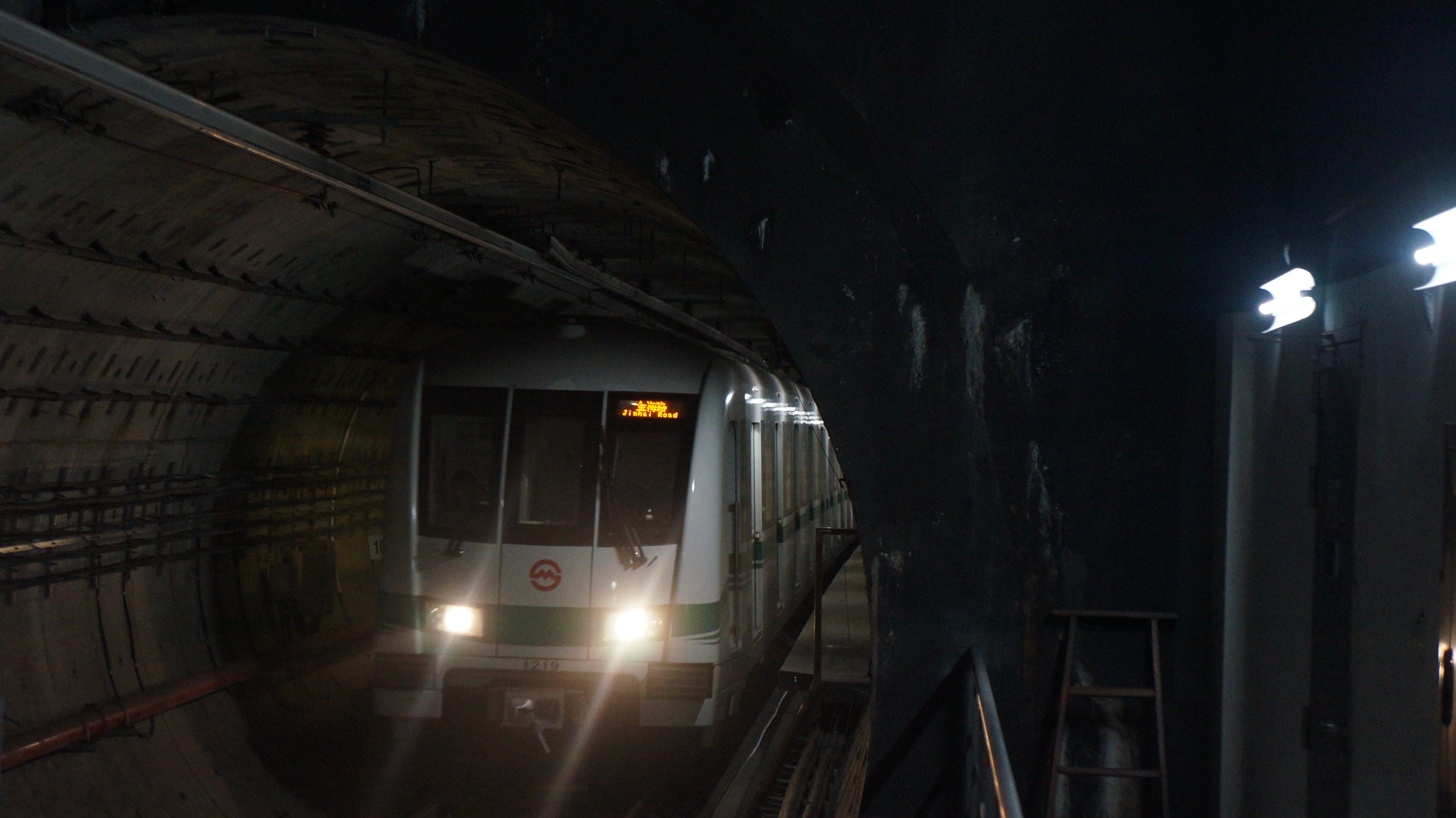 201603 AC09-1219 enters Longcao Road Station